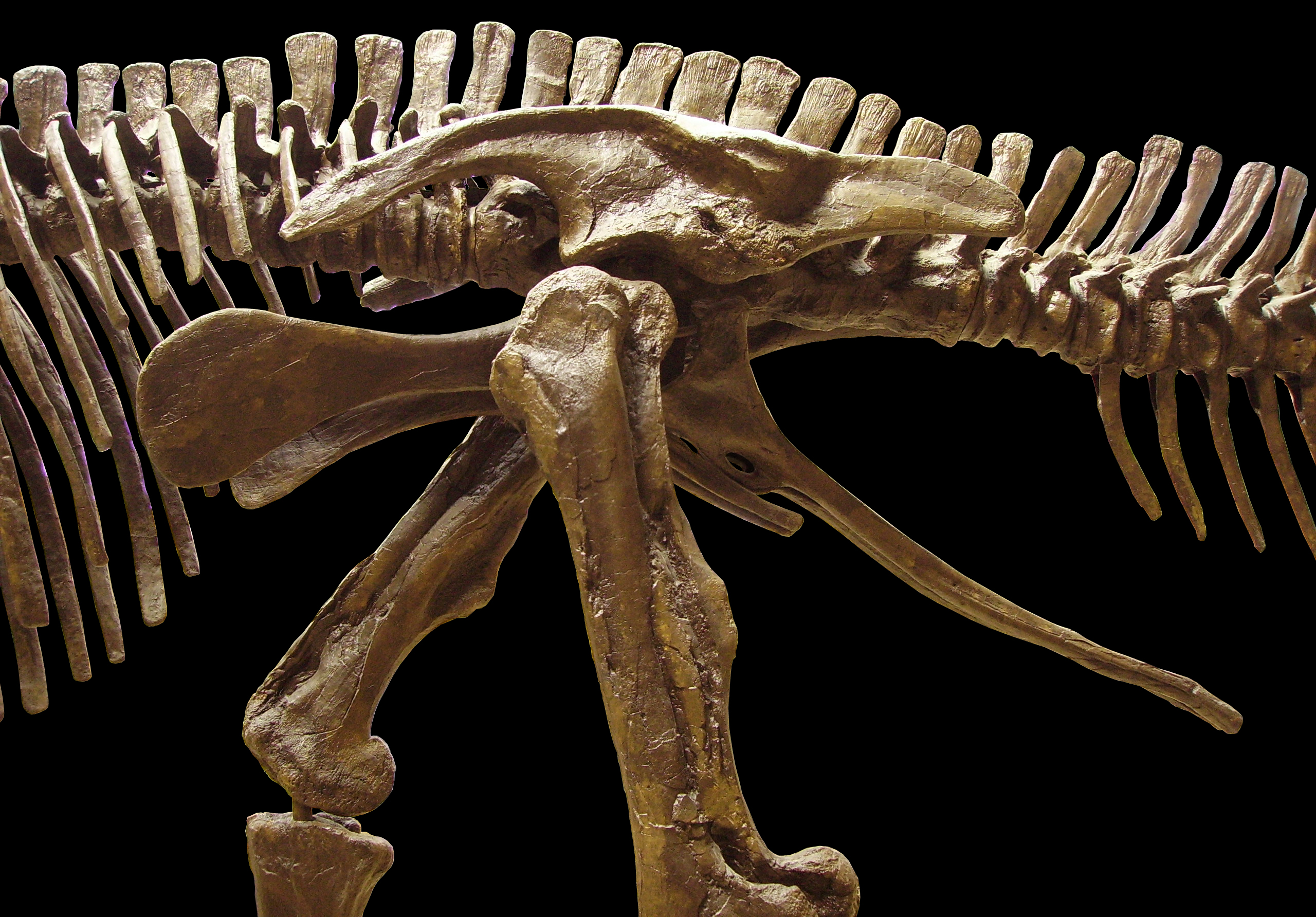 Pelvic bones, hip joint and adjacent structures of the ornithischian dinosaur Edmontosaurus annectens, seen from the left side; part of a mounted replica of a composite skeleton in the Oxford University Museum.